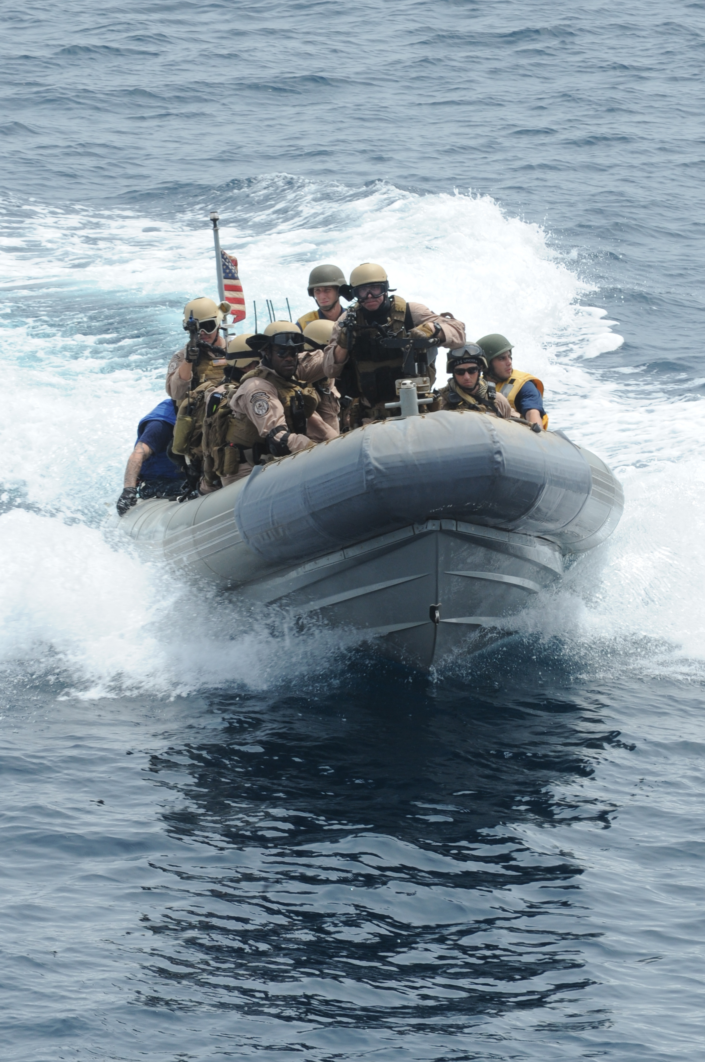 RED SEA (Aug. 21, 2010) Members of the U.S. Coast Guard Tactical Law Enforcement, Detachment 404, and the visit, board, search and seizure team embarked aboard the guided-missile cruiser USS Princeton (CG 59) engage in a mock assault operation in the Red Sea. Princeton is part of Combined Task Force 151, a multinational task force established in Jan. 2009 to conduct counter-piracy operations in the Gulf of Aden and Somali Basin. (U.S. Navy photo by Mass Communication Specialist 1st Class Herbert D. Banks Jr./Released)